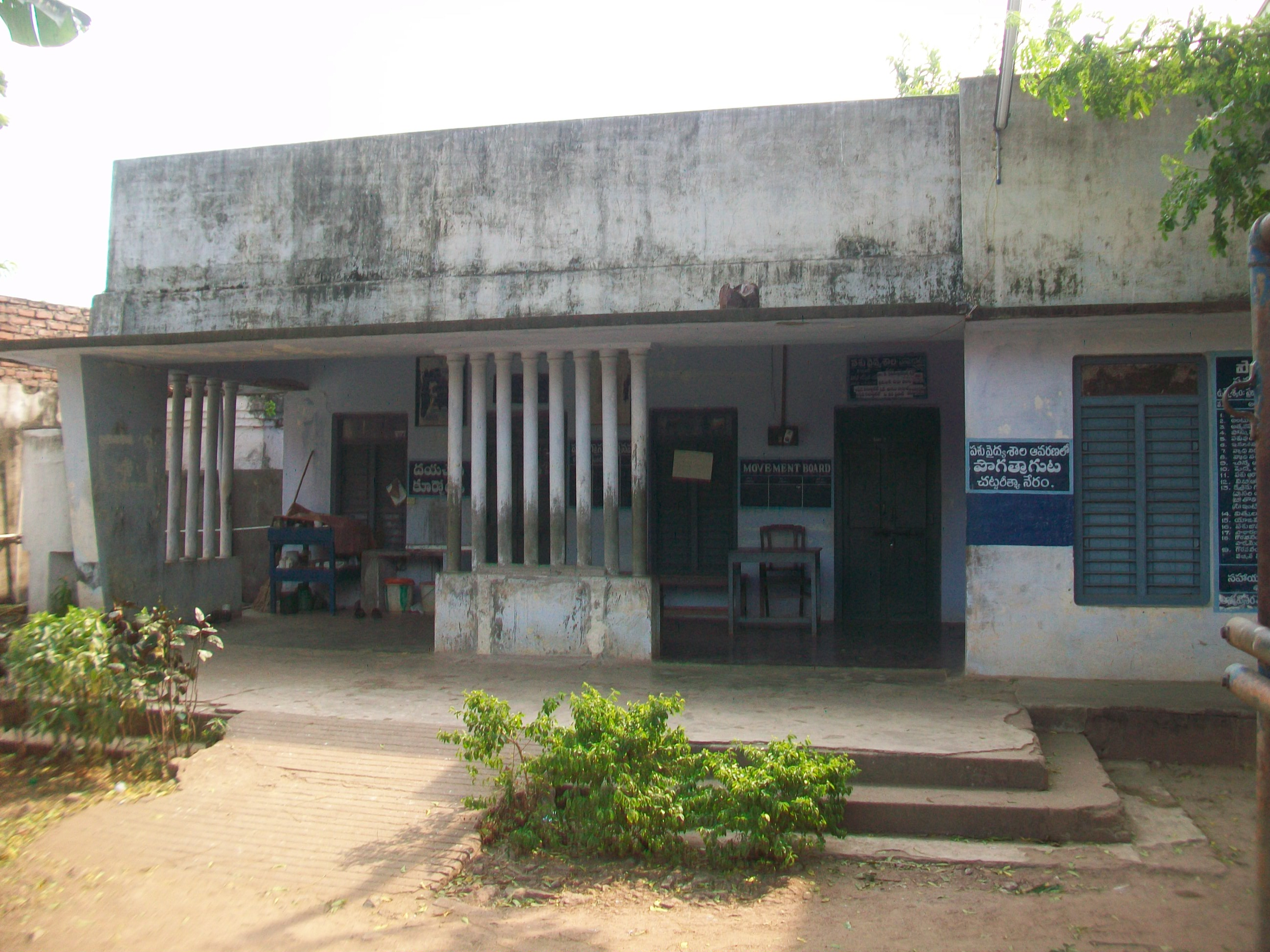 veterinary hospital